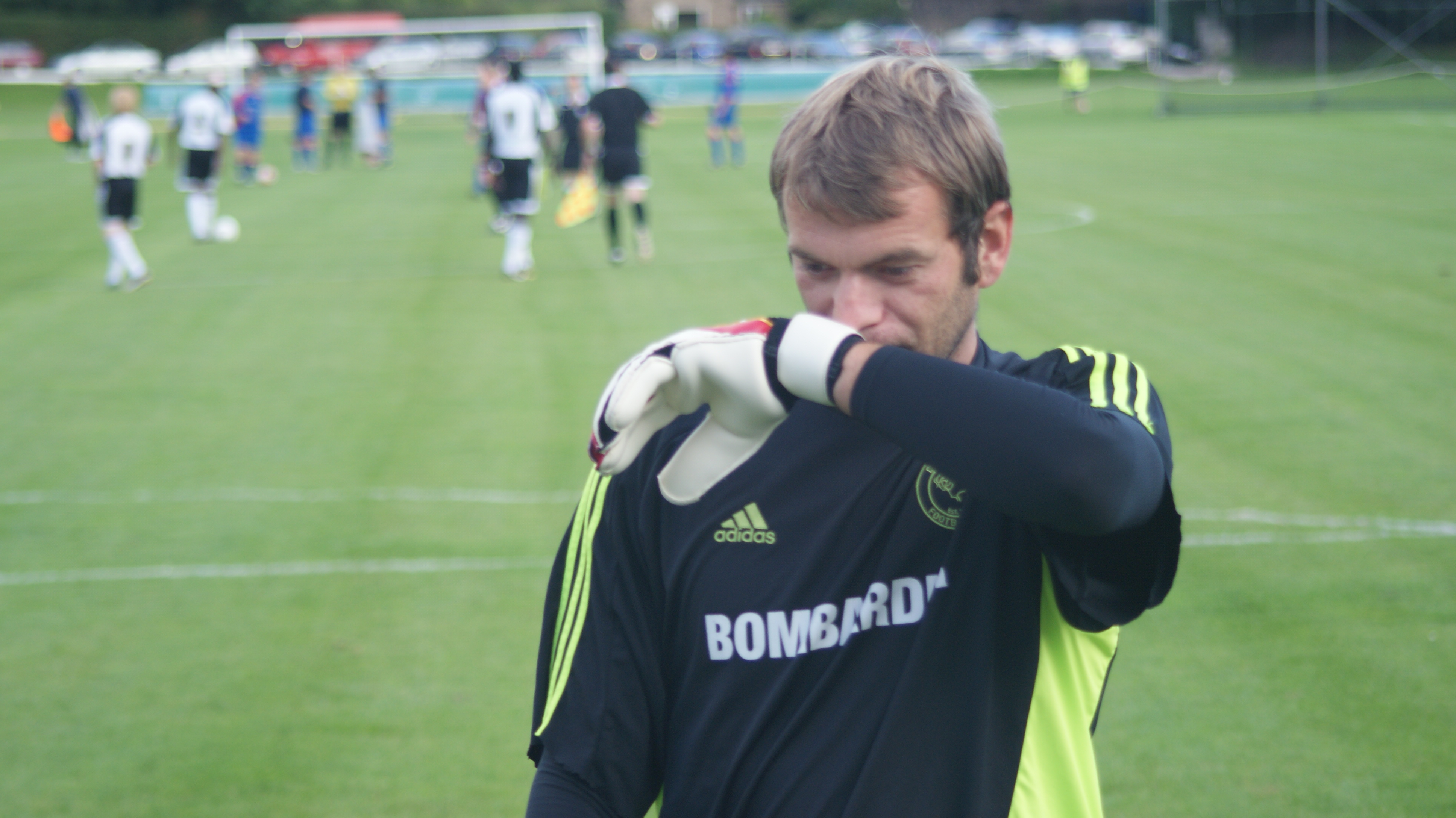 Roy Carroll